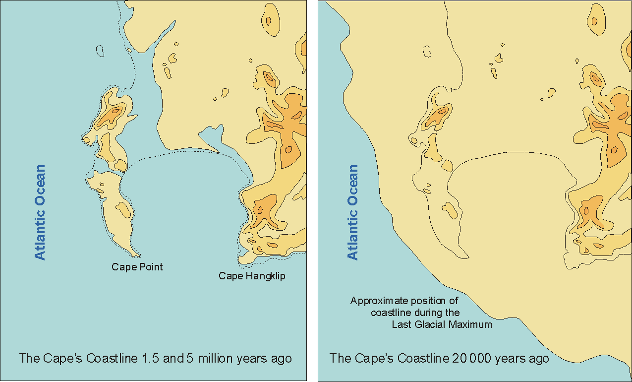 Cape Peninsula with glacial and interglacial shorelines